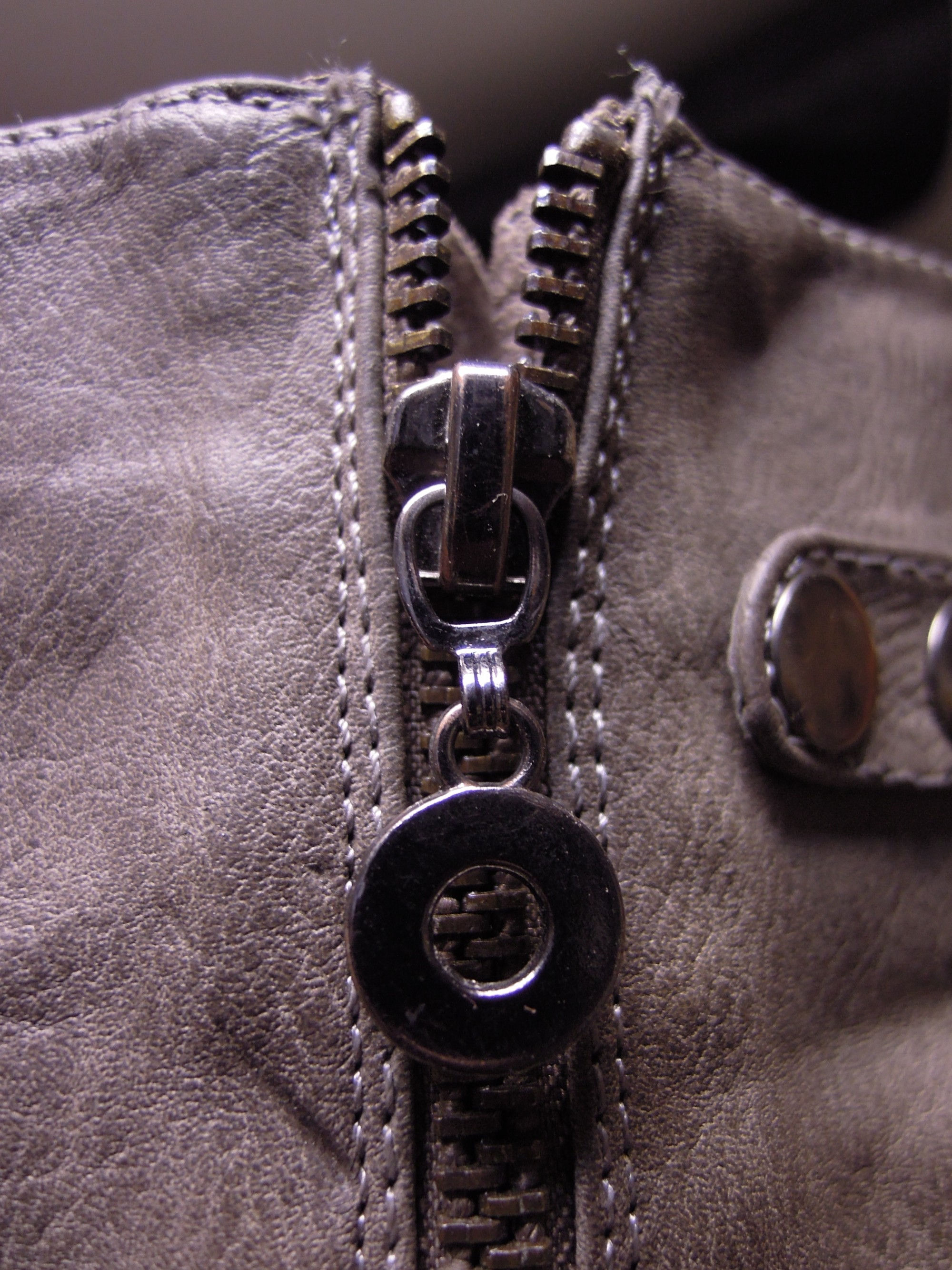 A zipper on a boot.